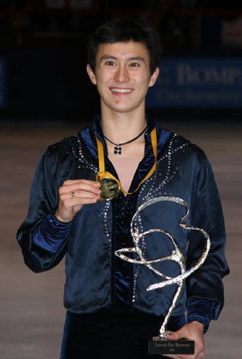 Patrick Chan (CAN) at the 2008 Trophée Eric Bompard Cachemire podium.